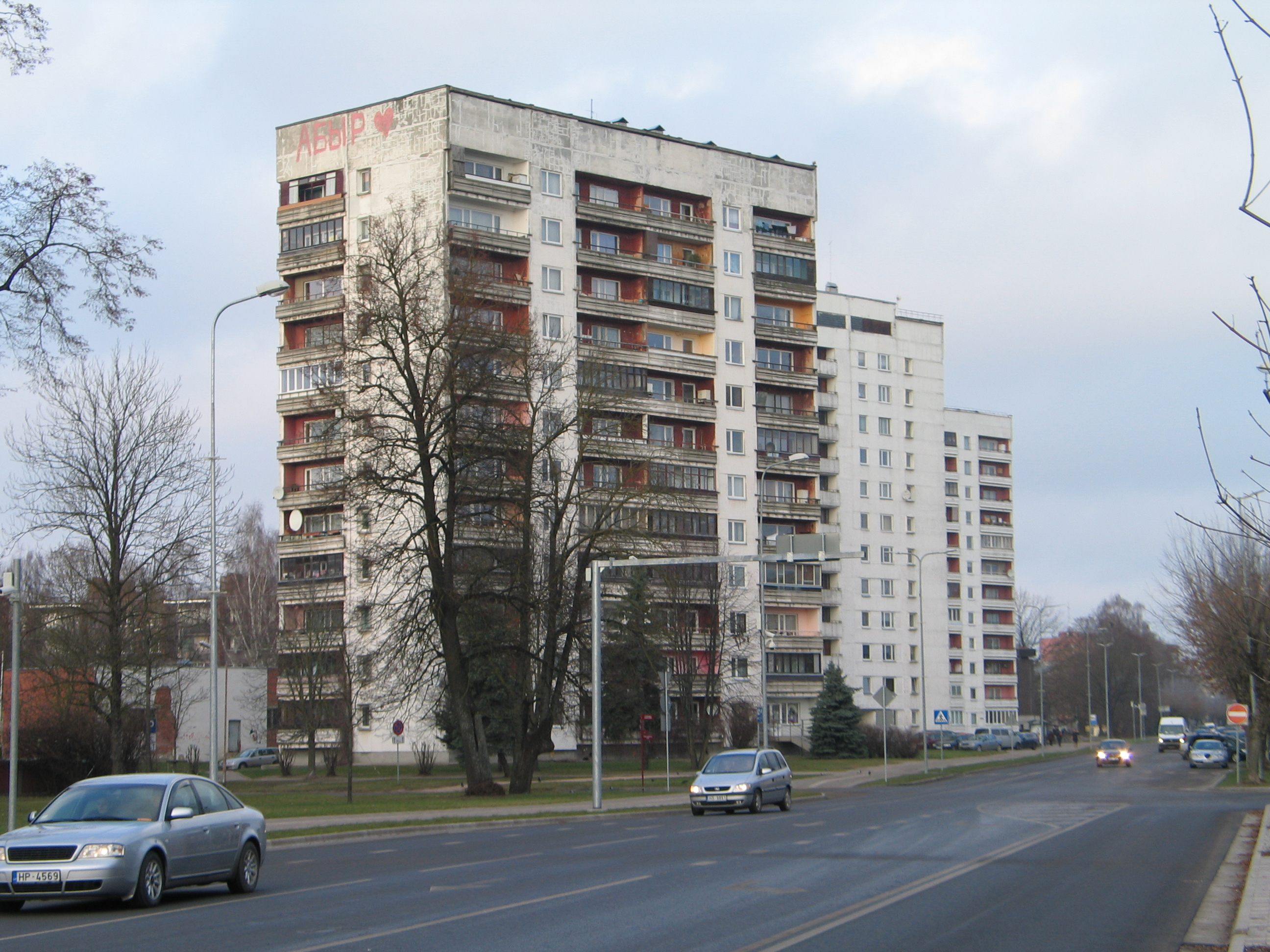 Pasta Street in Jelgava